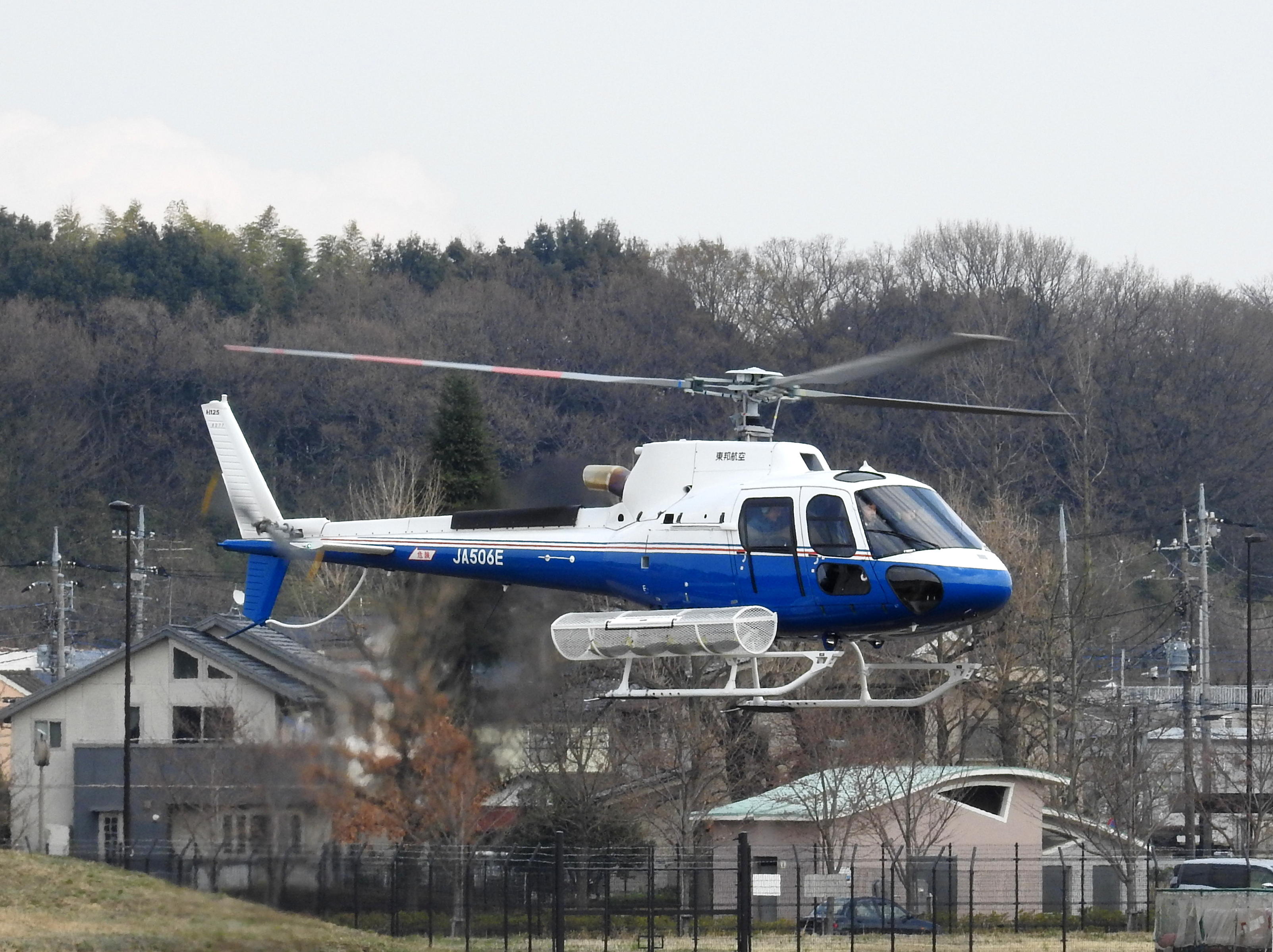 Eurocopter AS350 Écureuil JA506E operated by Toho Air Service taking off from Chofu Airport, Tokyo, Japan.